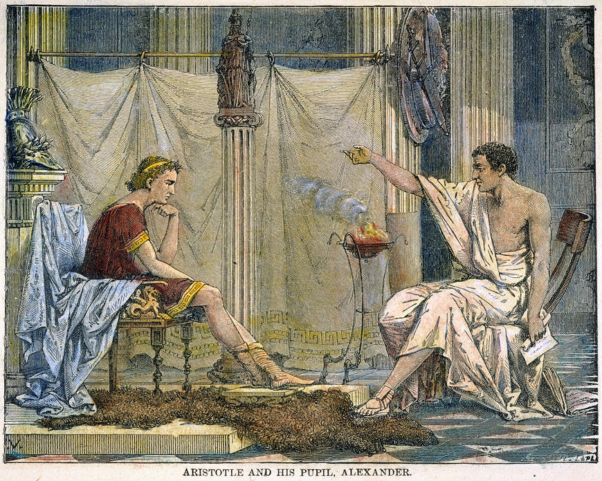 Aristotle teaching Alexander the Great